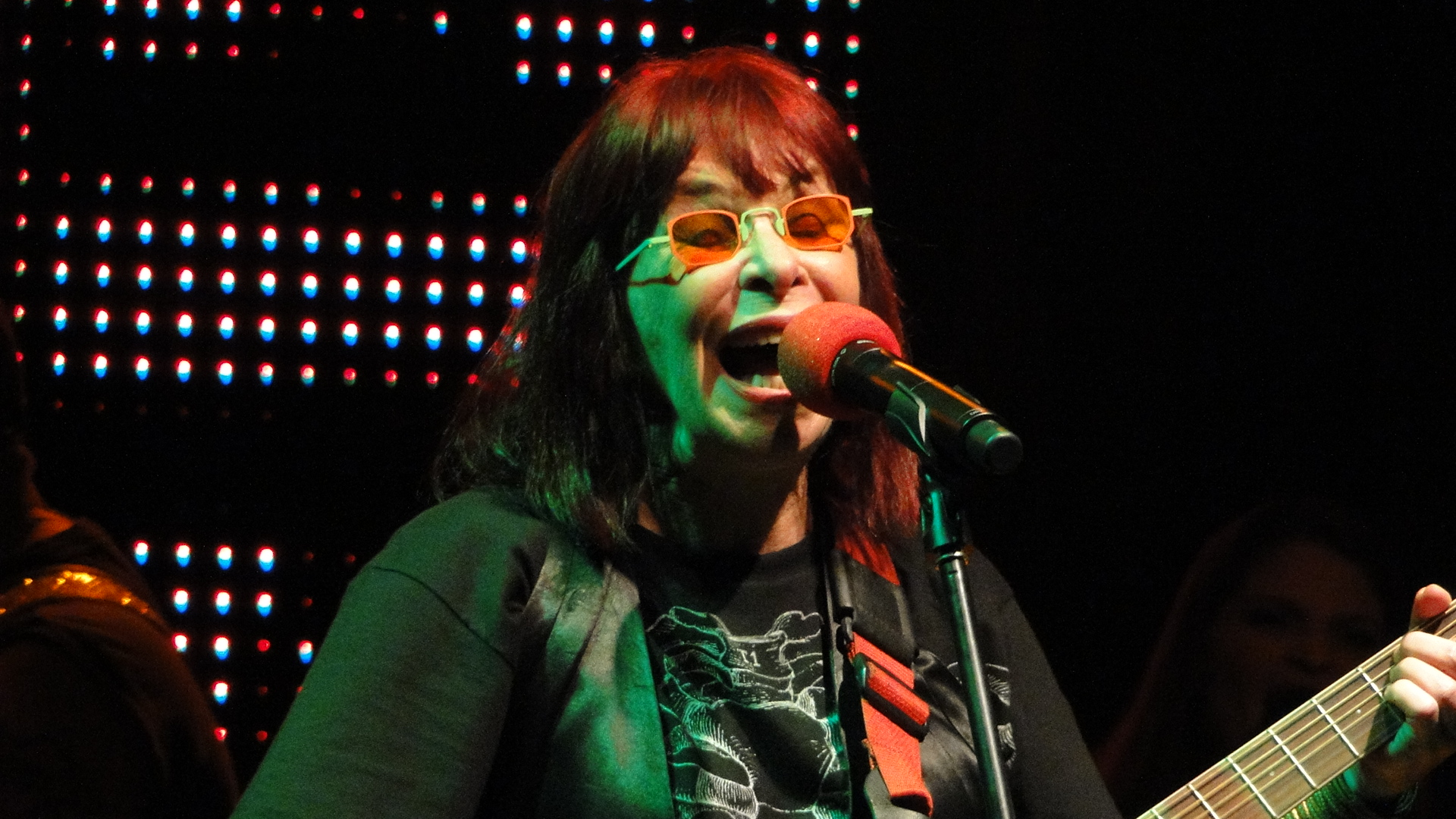 Rita Lee in concert in Araçatuba, May 23, 2009